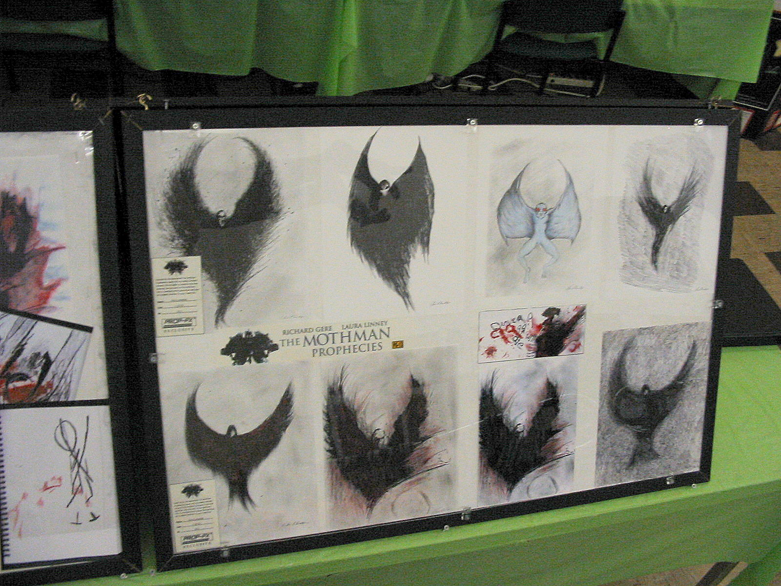 Mothman Museum Point Pleasant, WV July 19 2009